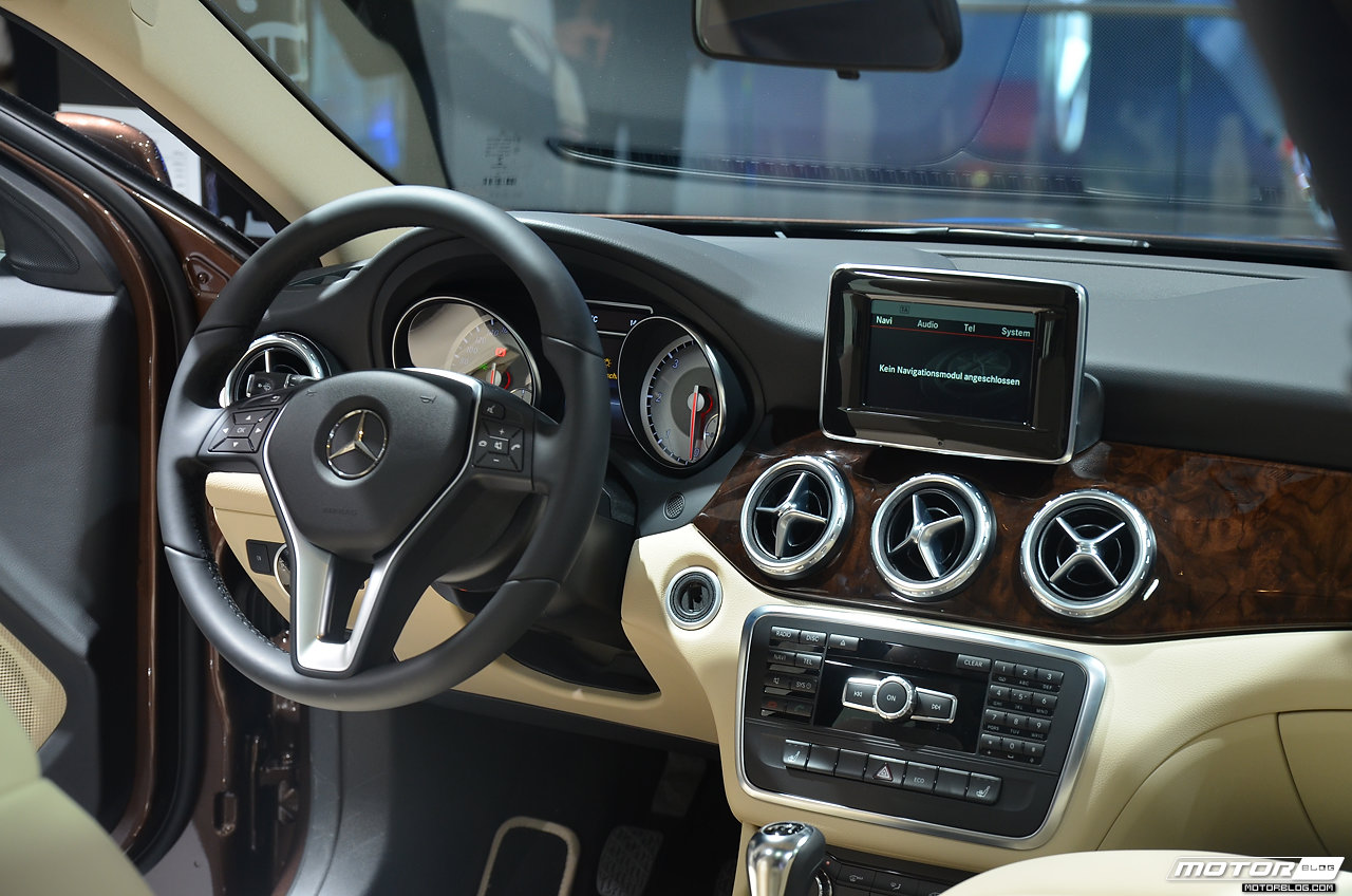 IAA Frankfurt 2013: Mercedes-Benz GLA-class / Photo: Raphael Jahn ______________________ Please feel free to use this image for FREE under the Creative Commons (CC) licence. However, if you use the image, pls set a backlink to and give credit as following: "Image: ". For highres images or any other inquiries pls contact mailto: . Thanks.